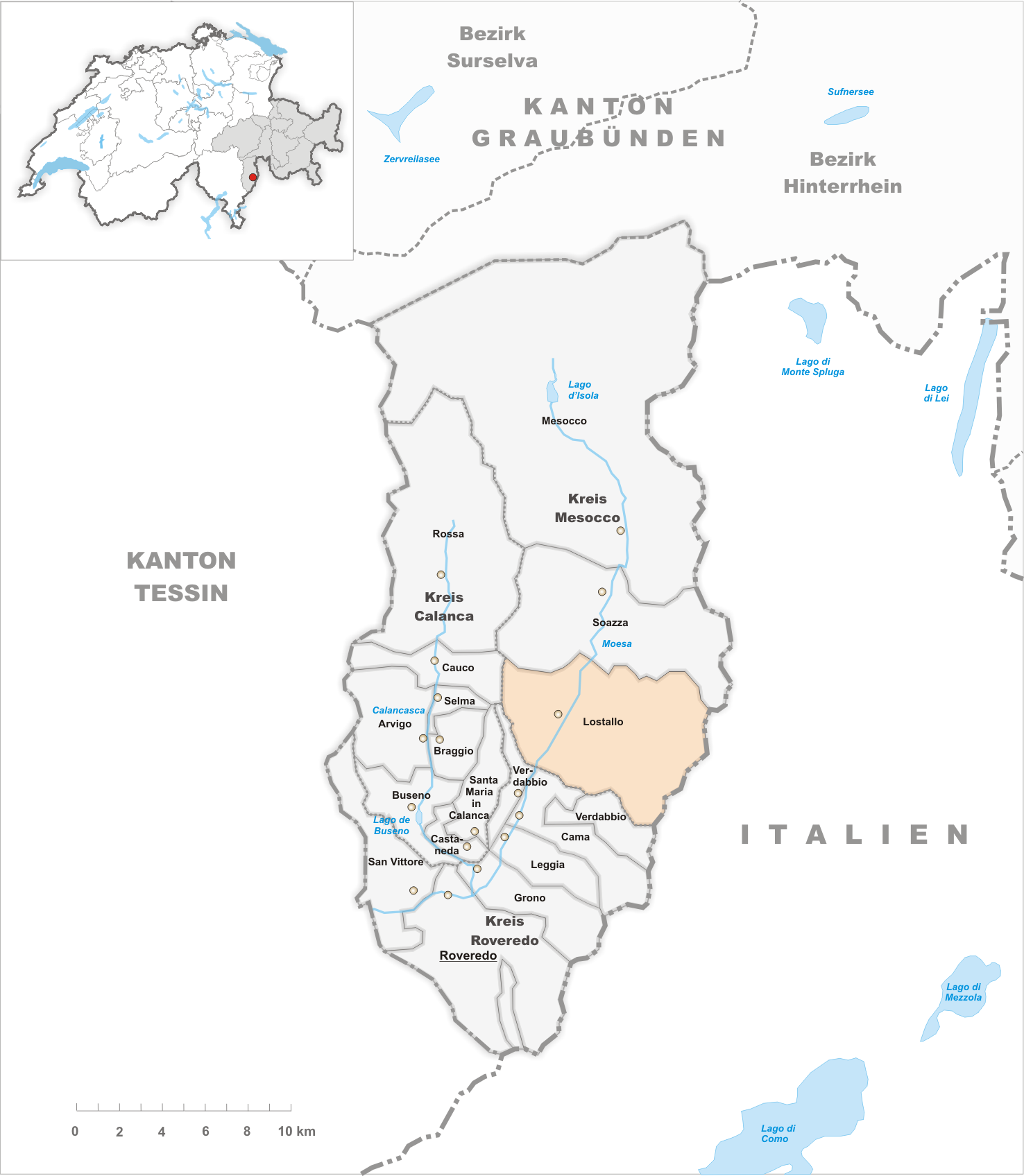 Municipality Lostallo